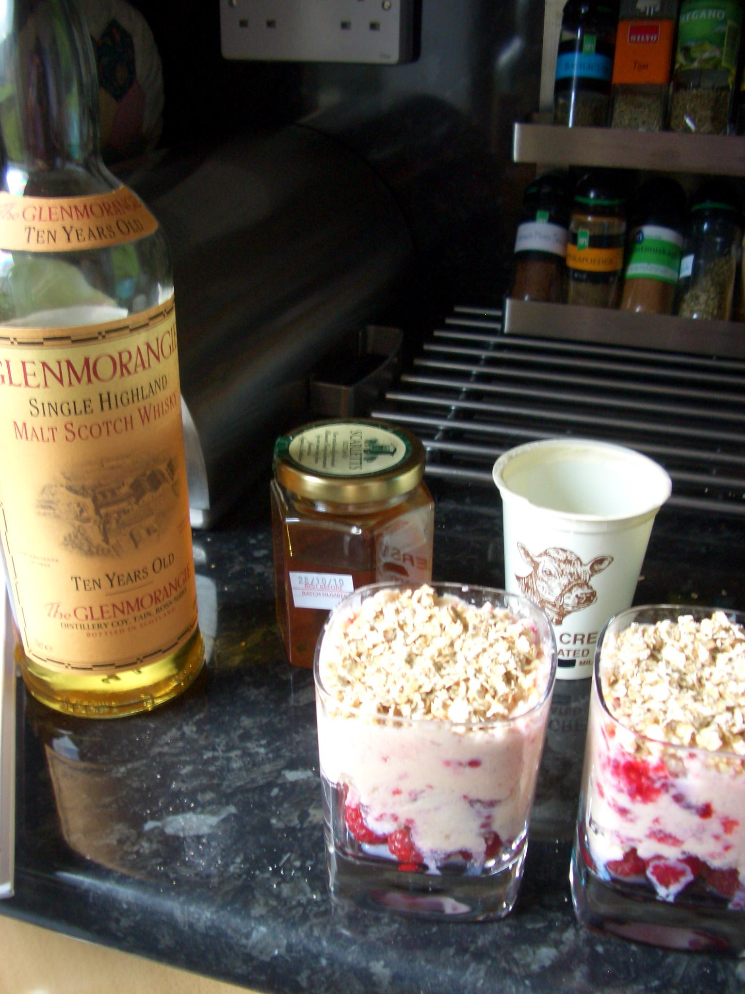 The best Scottish dessert